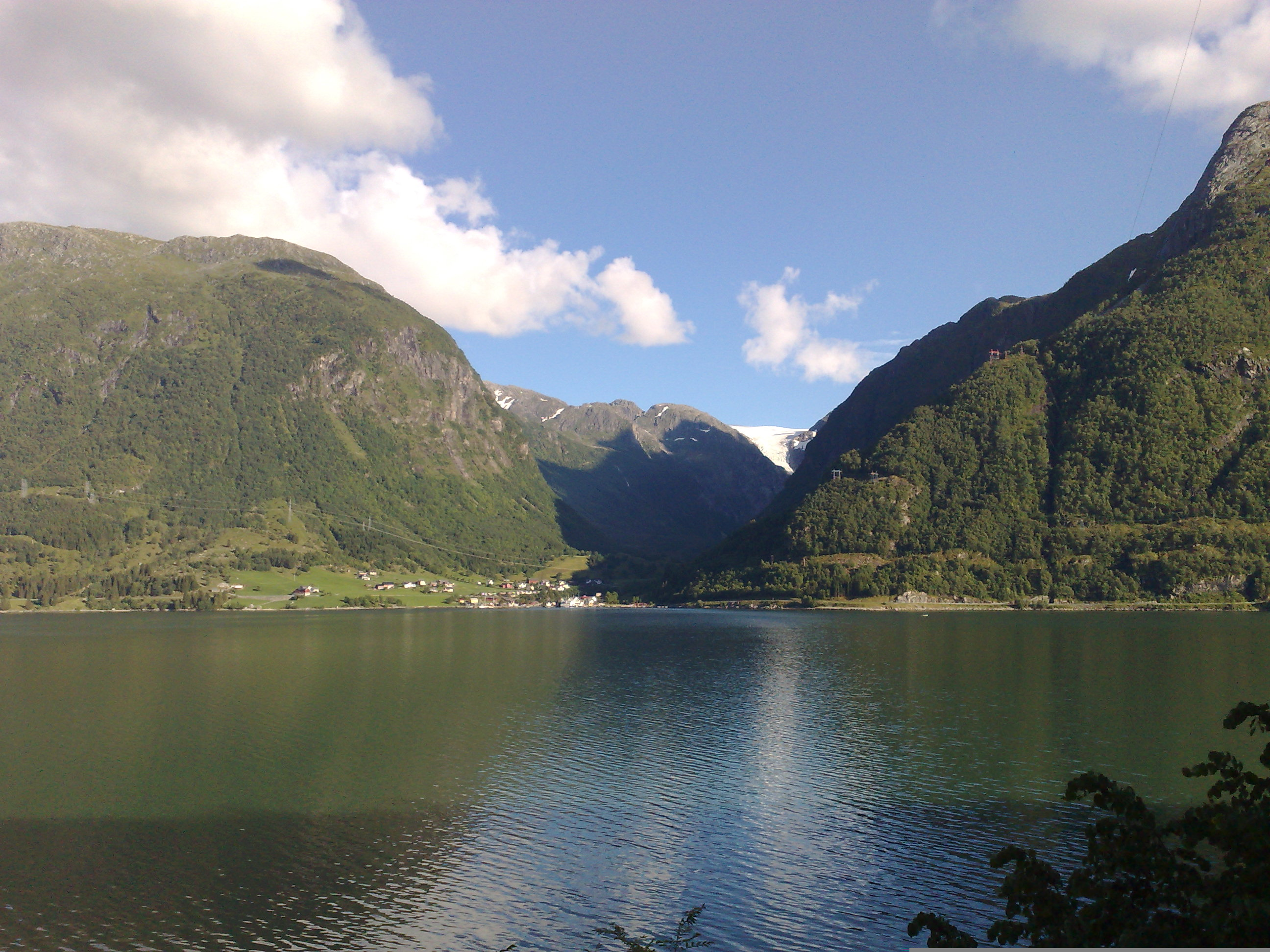 View on Sunndal, Mauranger, Kvinnherad, Hordaland, Norway.